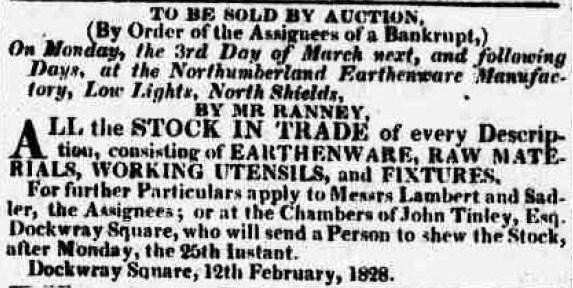 Newspaper advert photographed by me.